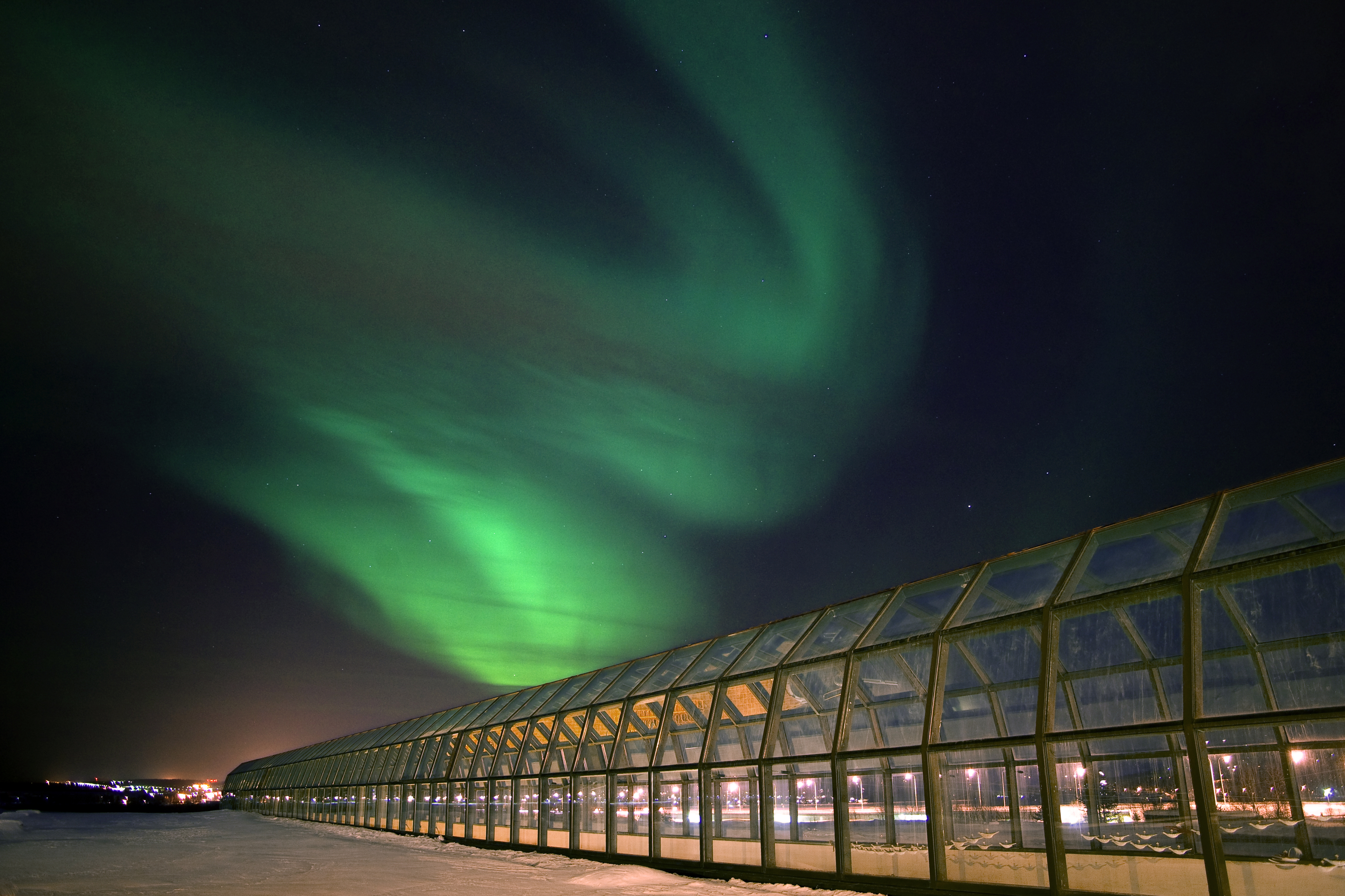 Arktikum museum and science centre, Northern Lights